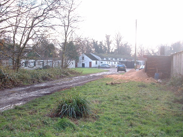 Leedsgate Farm, Bedford Purlieus Woods. The building in the centre background was the gym, cinema and chapel for RAF Kings Cliffe and was the last place that Glen Miller played before he disappeared.